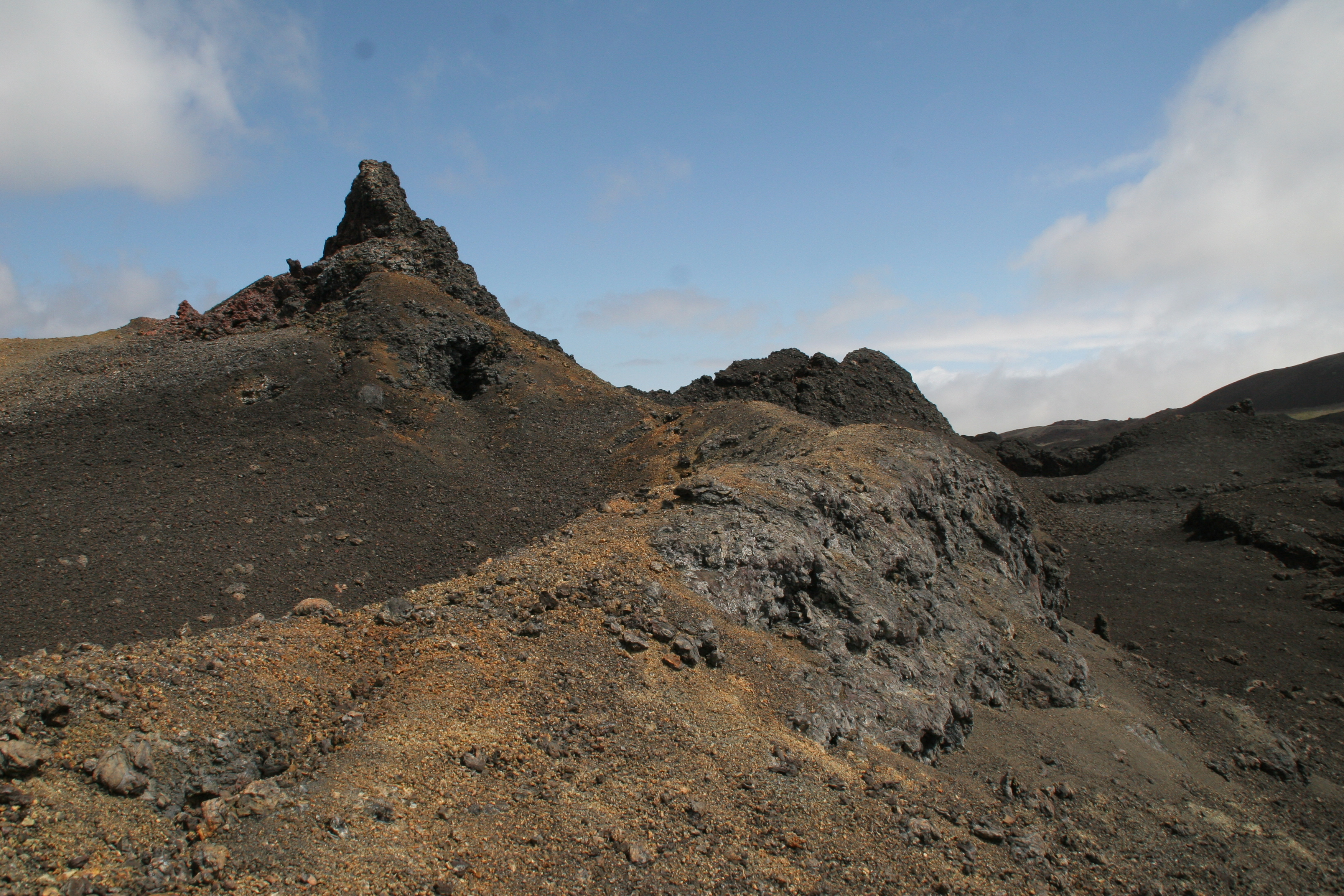 The slopes of Sierra Negra Volcano are first misty, then crystal clear as we hike across into lava floes from eruptions in 1970s, 80s and most recently, 2005.